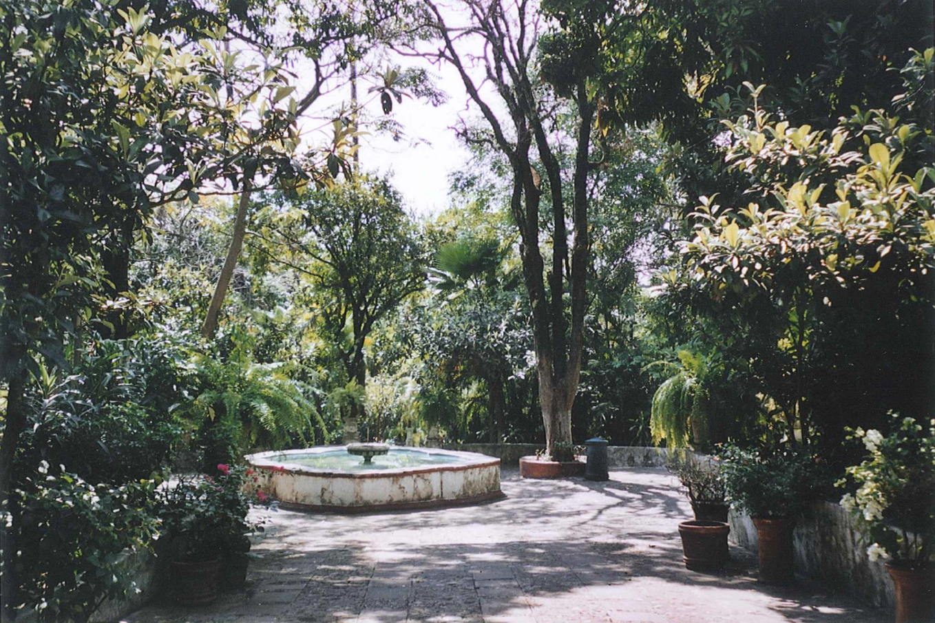 Fountain in Jardín Borda, Cuernavaca, Morelos, Mexico